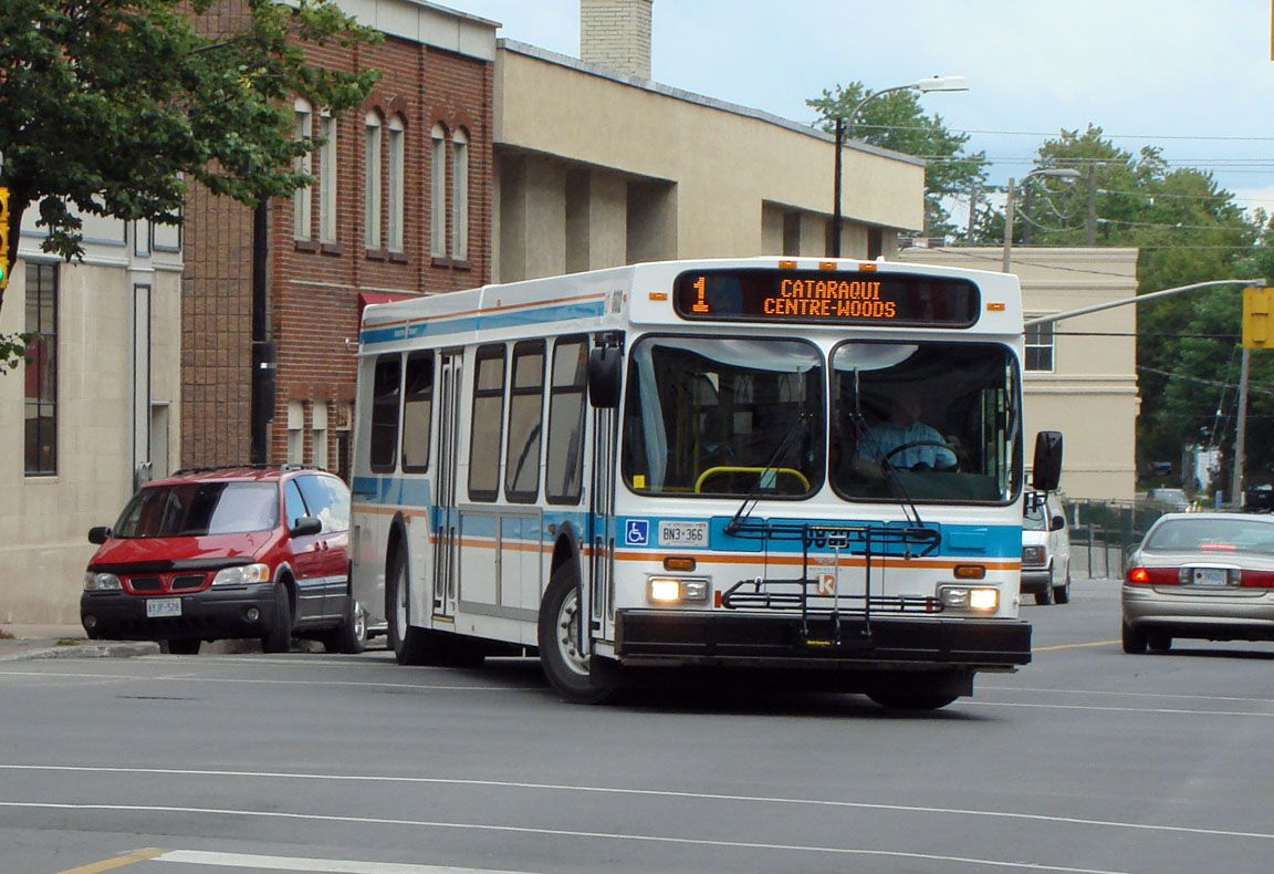 Kingston Transit bus